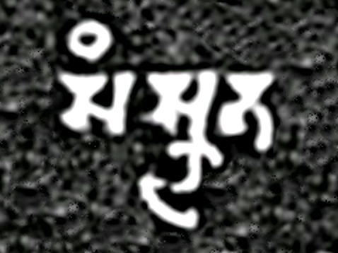 Word for Sanskrit Samskrita in the Mandsaur stone inscription of Yashodharman-Vishnuvardhana 532 CE